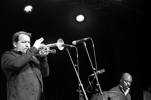 Chicago-Underground Duo:_Rob Mazurek_and Chad Taylor in Aarhus Denamrk